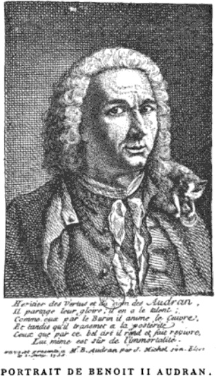 Benoît Audran the Younger (1698–1772), French engraver